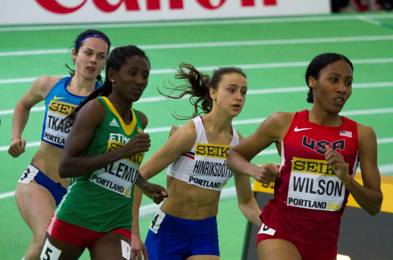 319 halve finales 800m